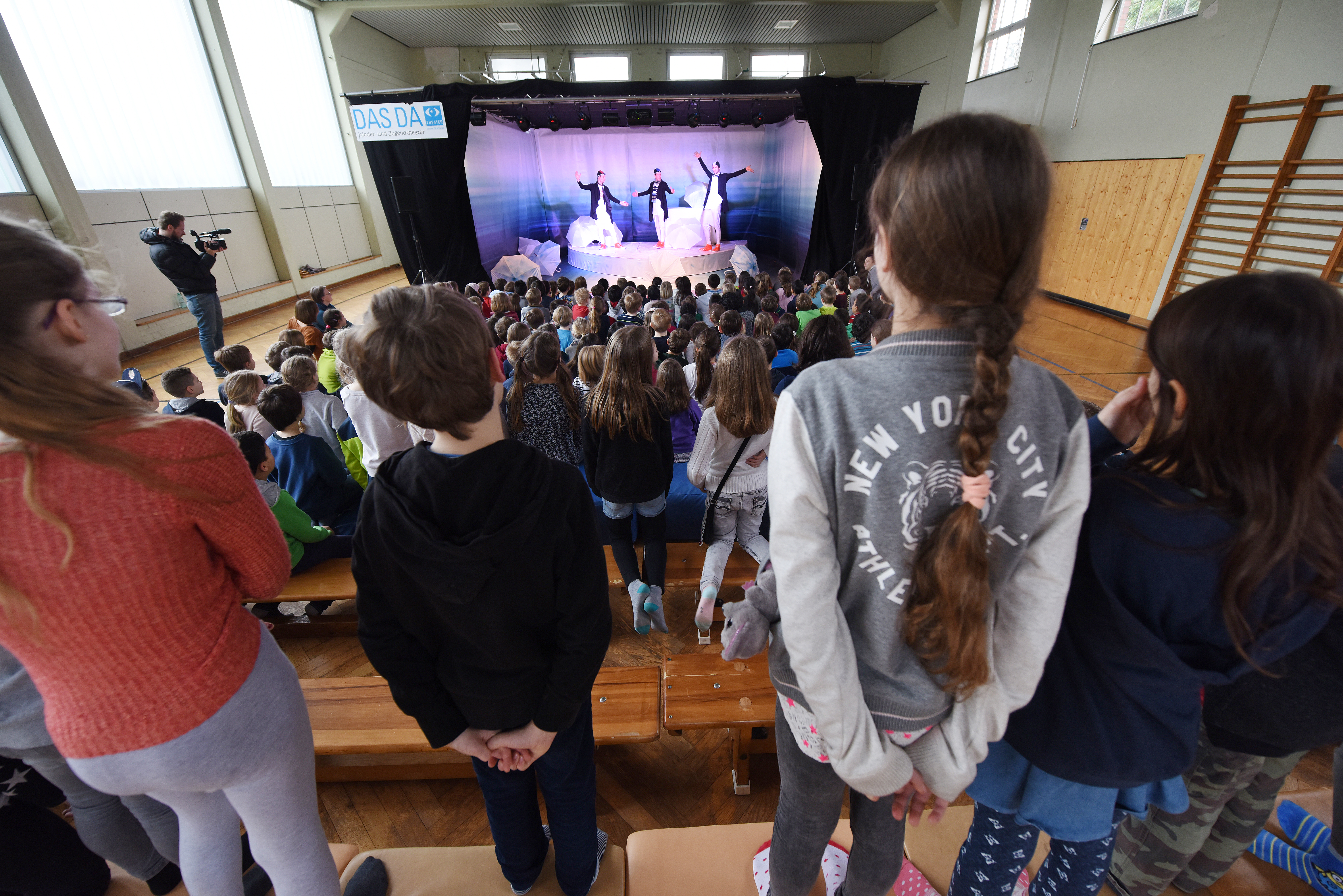 An der Arche um Acht - Mobiles Kindertheater